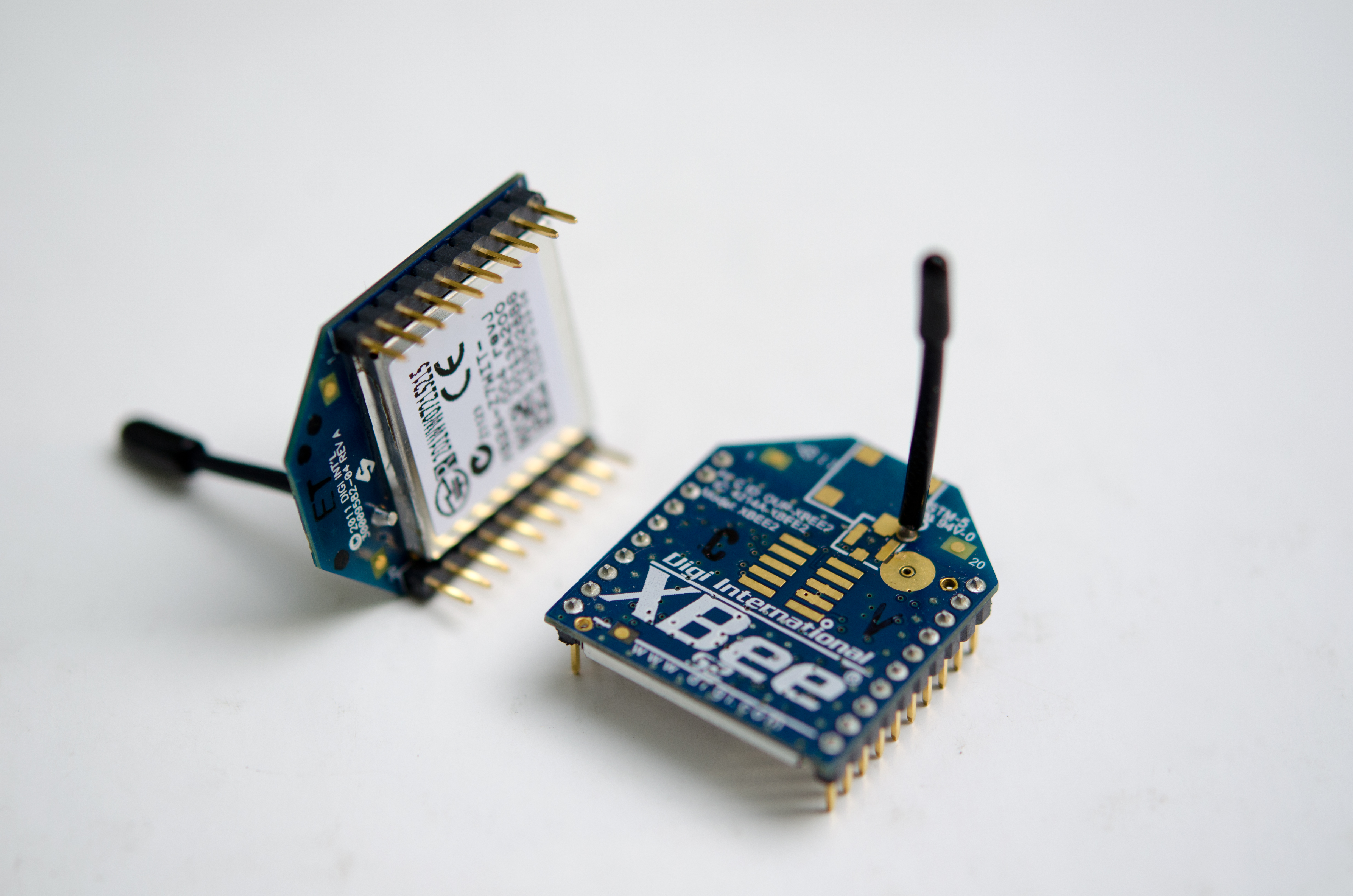 A pair of XBee Series 2 radios with a wire whip style antennas, showing both the bottom/side (at left) and top (at right).